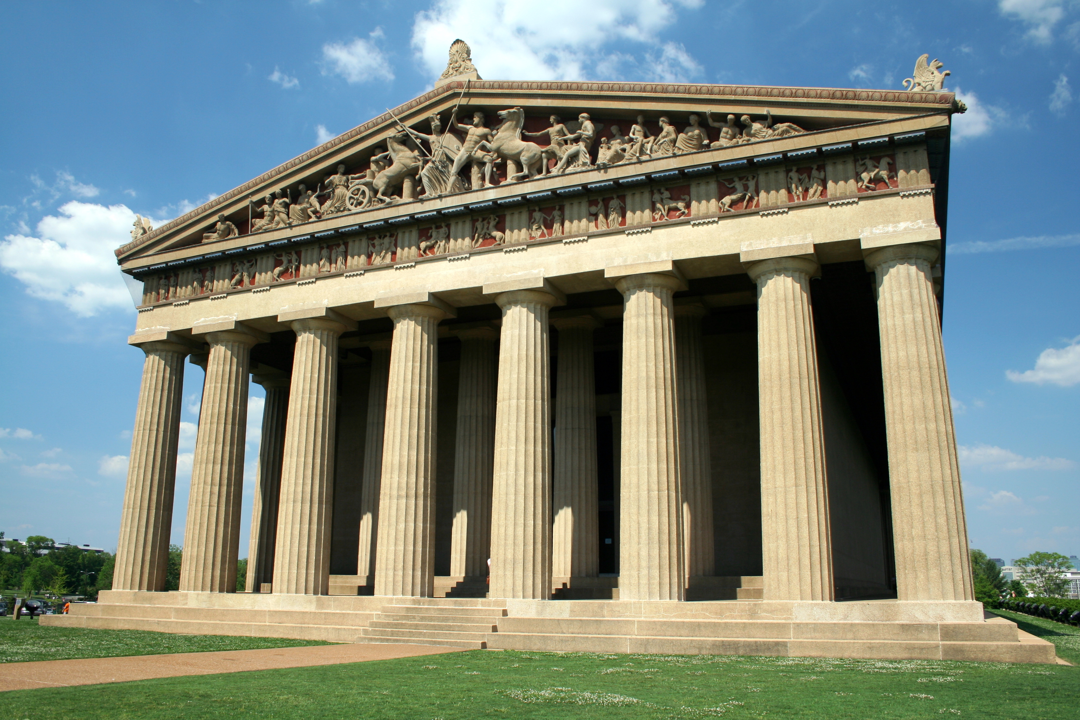 Replica of the Parthenon in Nashville, Tennessee.